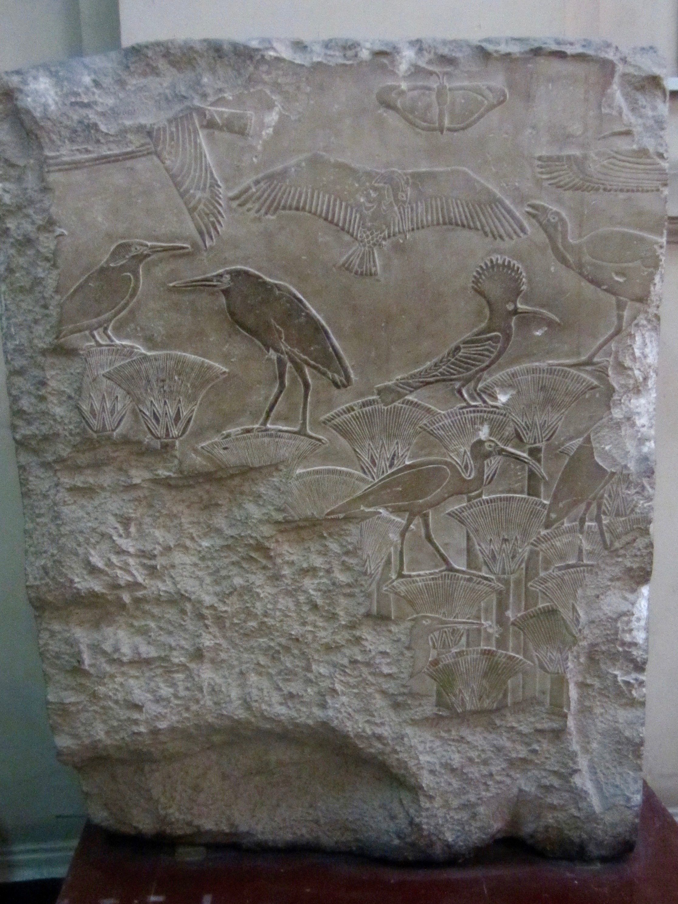 Relief from the pyramid temple of Userkaf, now in the Egyptian Museum of Antiquities in Cairo. The scene includes a butterfly and a variety of birds: "a hovering pied kingfisher, a green kingfisher facing a grey heron, a hoopoe facing a purple water-hen, a sacred ibis… and in the lowest part the head of a bittern" (The Egyptian Museum in Cairo by Abeer el-Shahawy, 2005). The relief would have been part of a hunting scene symbolizing the king's role as the establisher of order. The life in the papyrus thicket may also allude to the role of the sun god Ra in creating life on earth. Fifth Dynasty, 25th century BC.